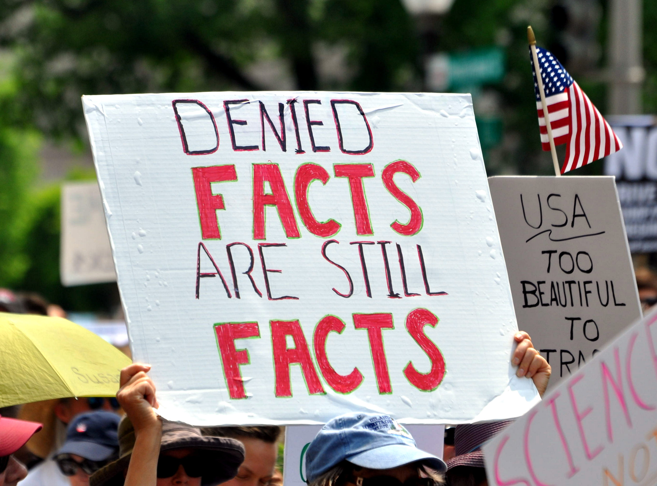 People's Climate March 2017 in Washington, D.C. - Sign about climate change denial. "Denied facts are still facts."